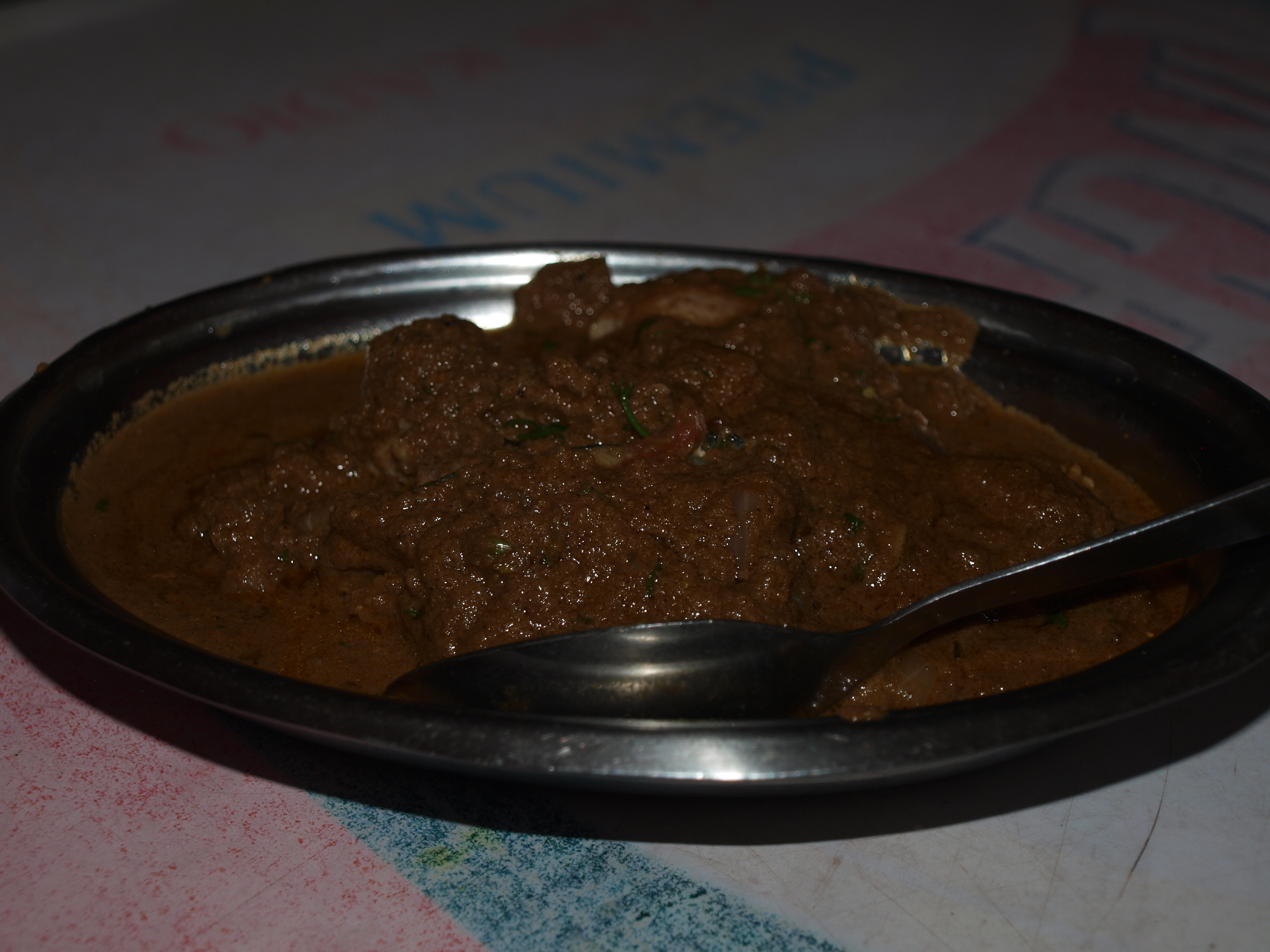 Fish xacuti at Candolim, Goa.